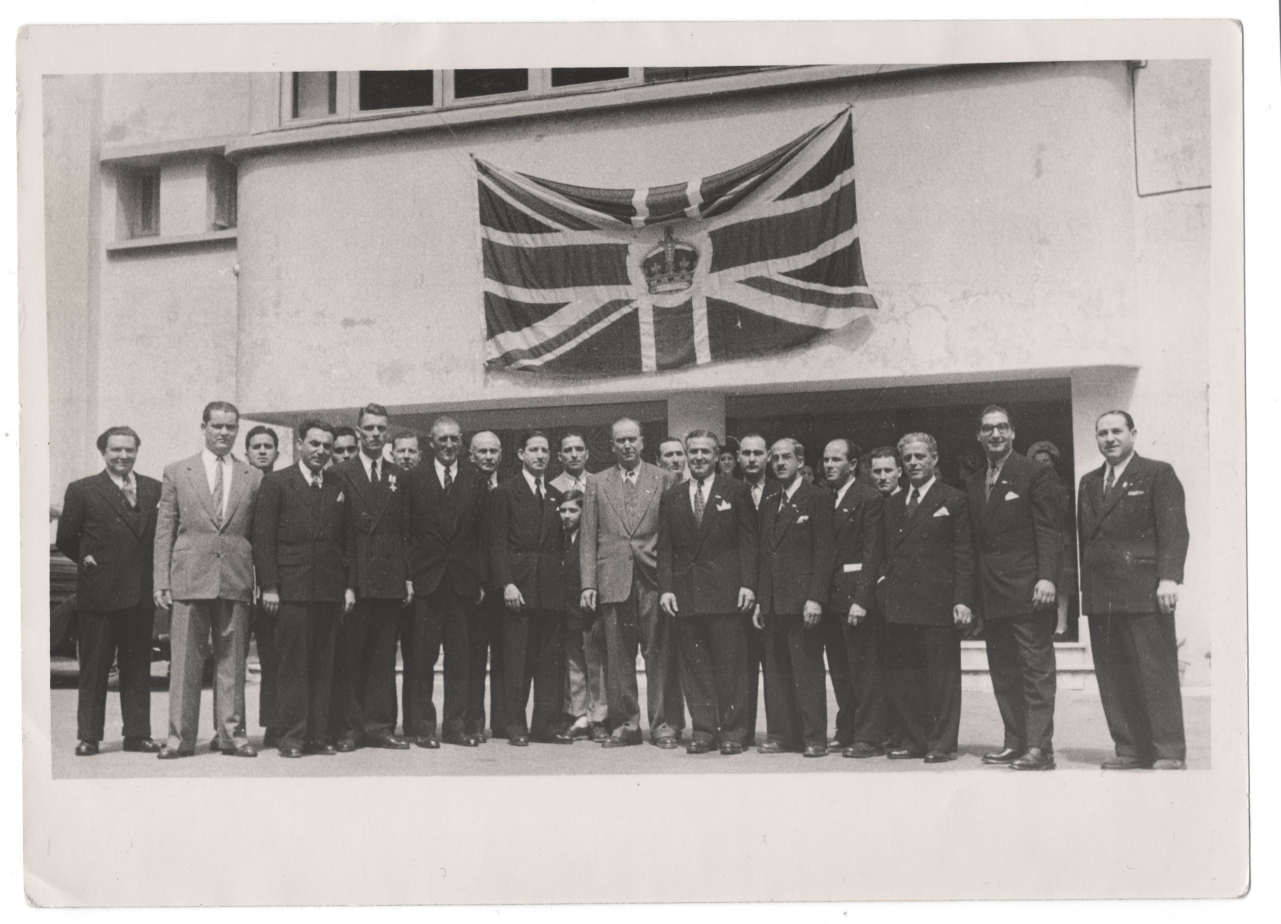 Members of the Geo Gras Group during the King's Medal for Courage award ceremony at the British Consulate in Algiers, April 1948